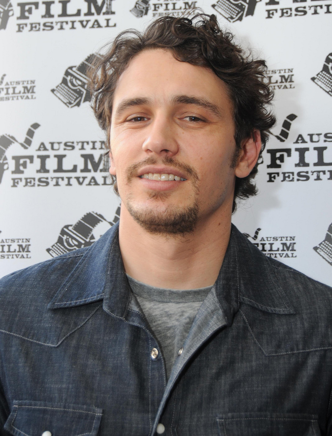 James Franco at the Austin Film Festival in October 2011.